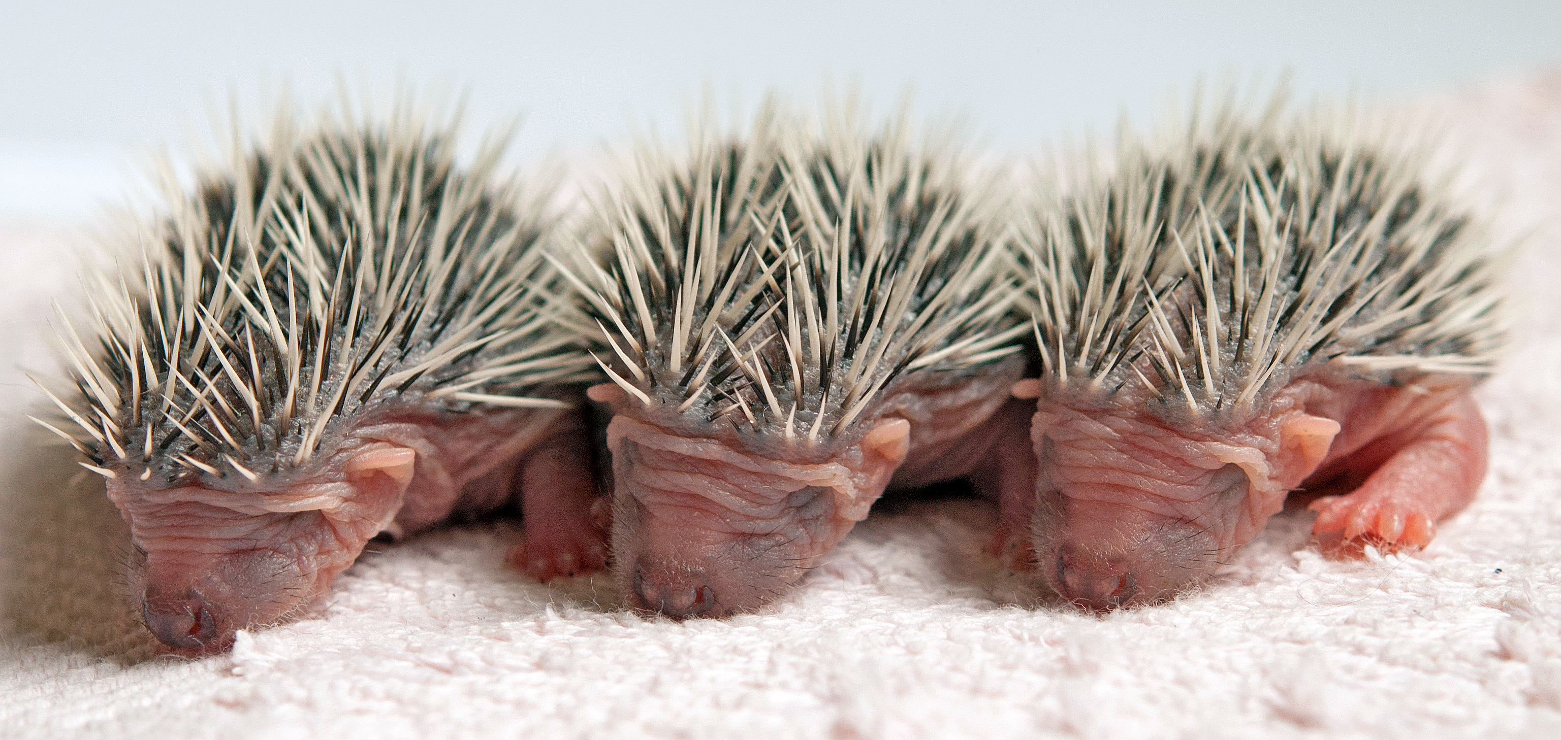 One day old Erinaceus europaeus.